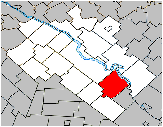 Location of L'Avenir, Quebec within Drummond Regional County Municipality.